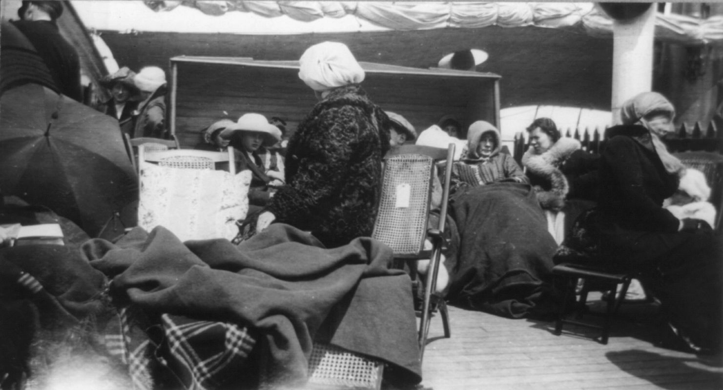 Group of survivors of the Titanic disaster aboard the Carpathia after being rescued.